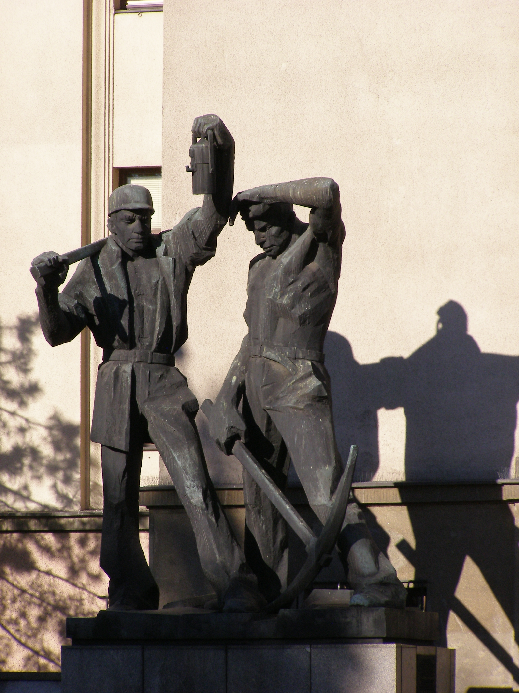 Kraków - AGH University of Science and Technology - miners' statue at the main building